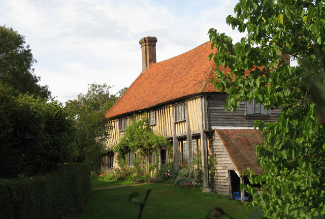 Smallhythe Place, Small Hythe, Kent